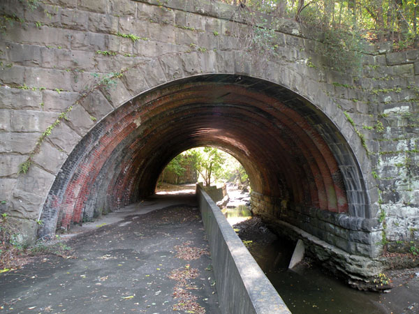 Picture of the Seldom Seen Arch, a stone arch bridge over Saw Mill Run (along Saw Mill Run Boulevard not far from Woodruff Street), in the Mount Washington neighborhood of Pittsburgh, Pennsylvania, on September 23, 2010. Built in 1903, engineers Boller & Hodge. The Seldom Seen Arch is on the List of Pittsburgh History and Landmarks Foundation Historic Landmarks. A sign near this arch says the following: "Beechview-Seldom Seen Greenway - Est. by the City of Pittsburgh July 15, 1985 - Dedicated to the memory of Edward E. Smuts, whose vision and enthusiasm inspired the Greenway Program to preserve Pittsburgh's wooded hillsides. Twenty-two acres of this greenway given as a living memorial by the Western Pennsylvania Conservancy in tribute to Mr. Smuts."